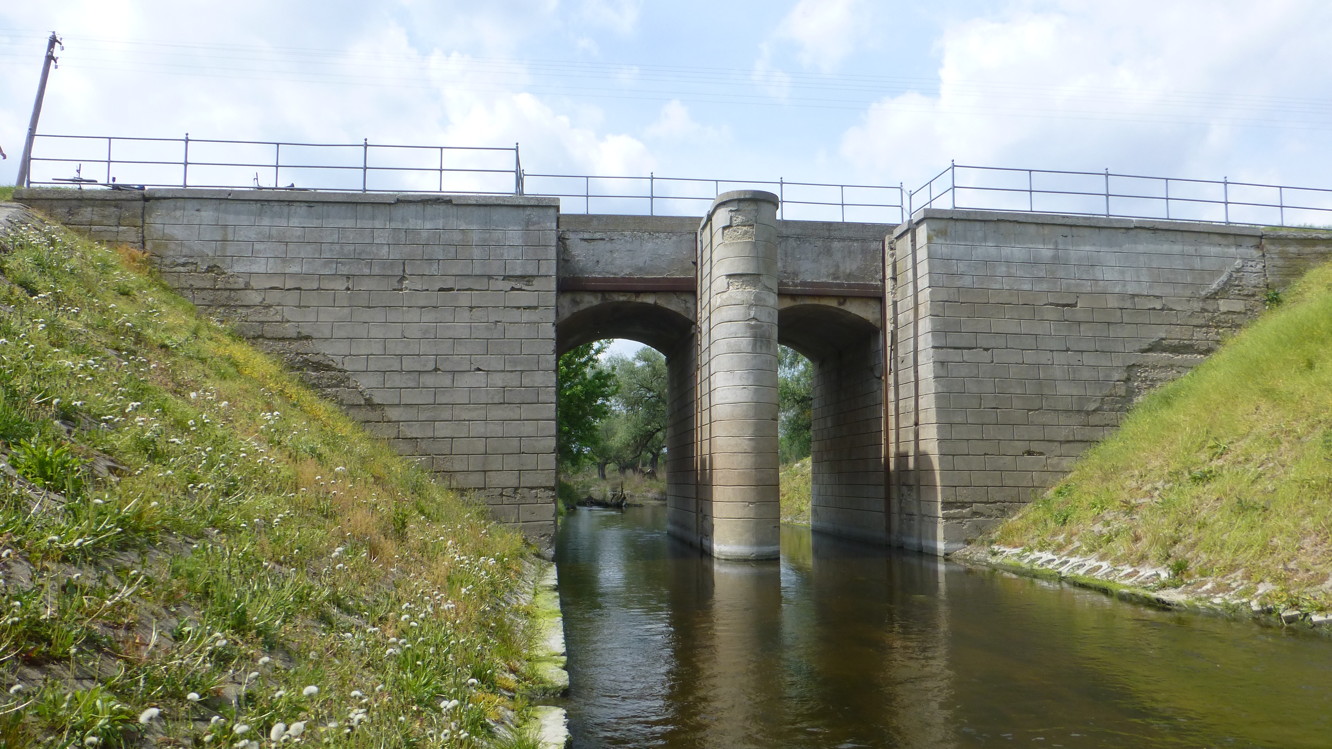 Tisza Cycleway (EuroVelo-11) in Baks, over the Dong river. (The facility were dwmolished by 2018.)